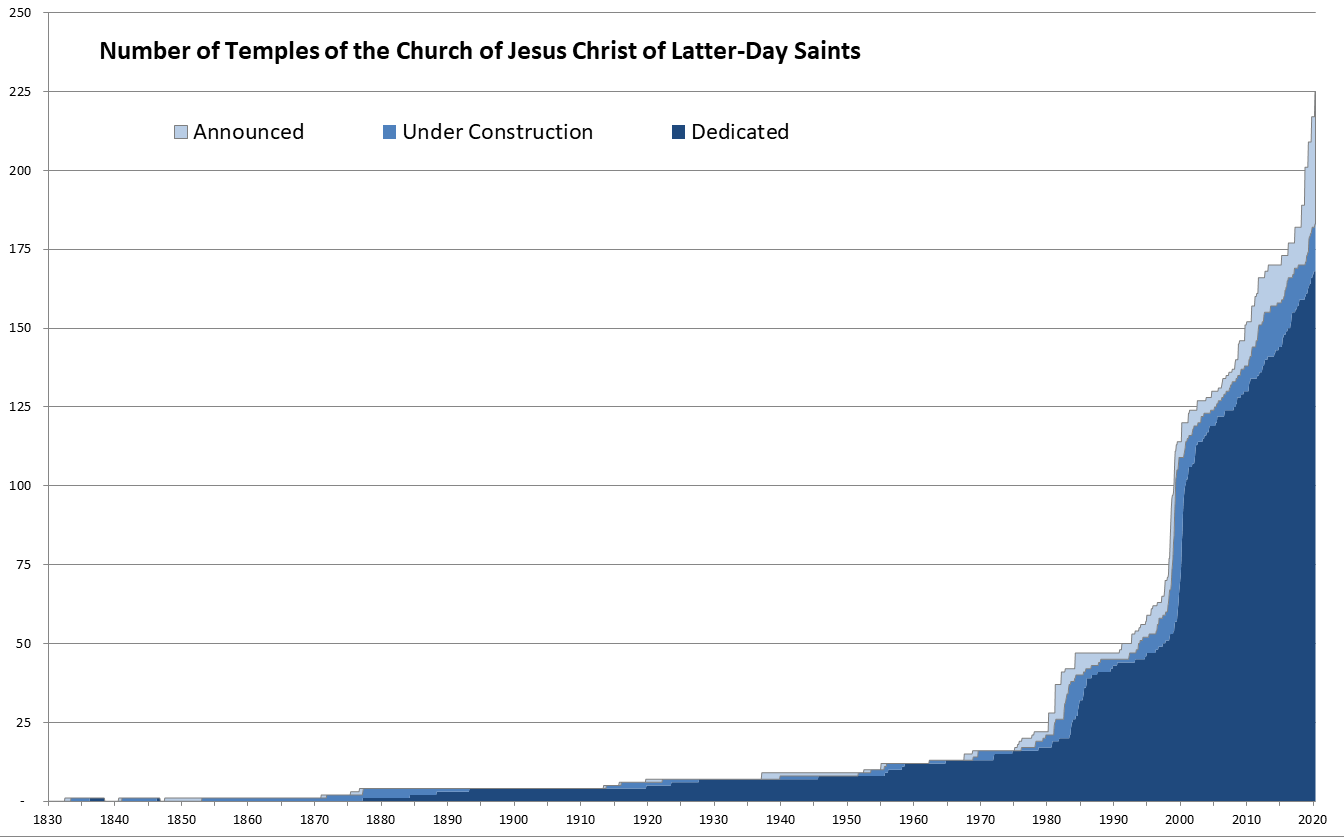 A graph of announcement, construction, and number of operating temples of the Church of Jesus Christ of Latter-Day Saints from 1830 to April 2020. I have a spreadsheet of this information and can update it as needed. Leave me a message on the English Wikipedia ( if you want any updates